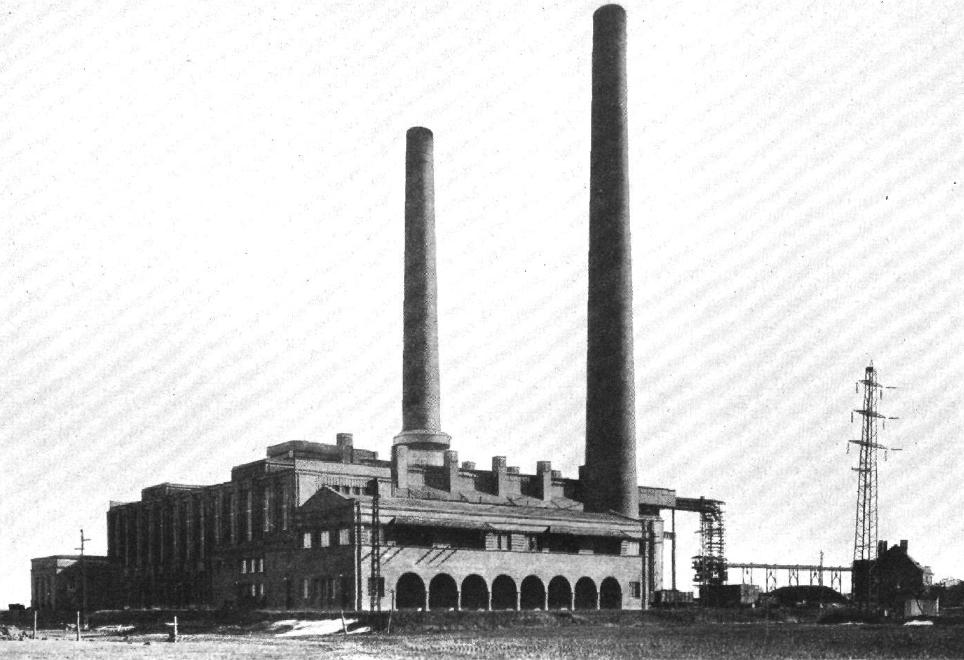 Photography of coal power plant "Großkraftwerk Main-Weser" at Borken in Hesse